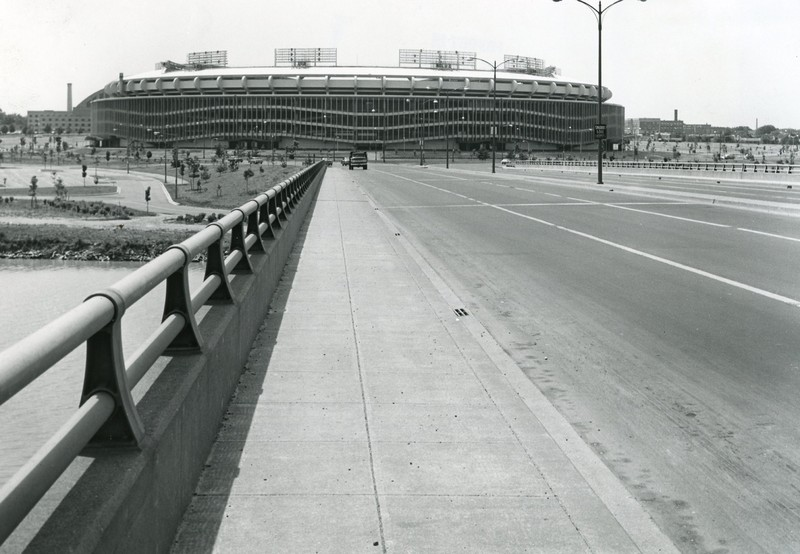 1964 photo of the Whitney Young Memorial Bridge, when it was still called the East Capitol Street Bridge, prior to the 1980 rebuild that changed the sidewalks and medians. RFK Stadium and its parking lots, before all the trees died, is in the background.